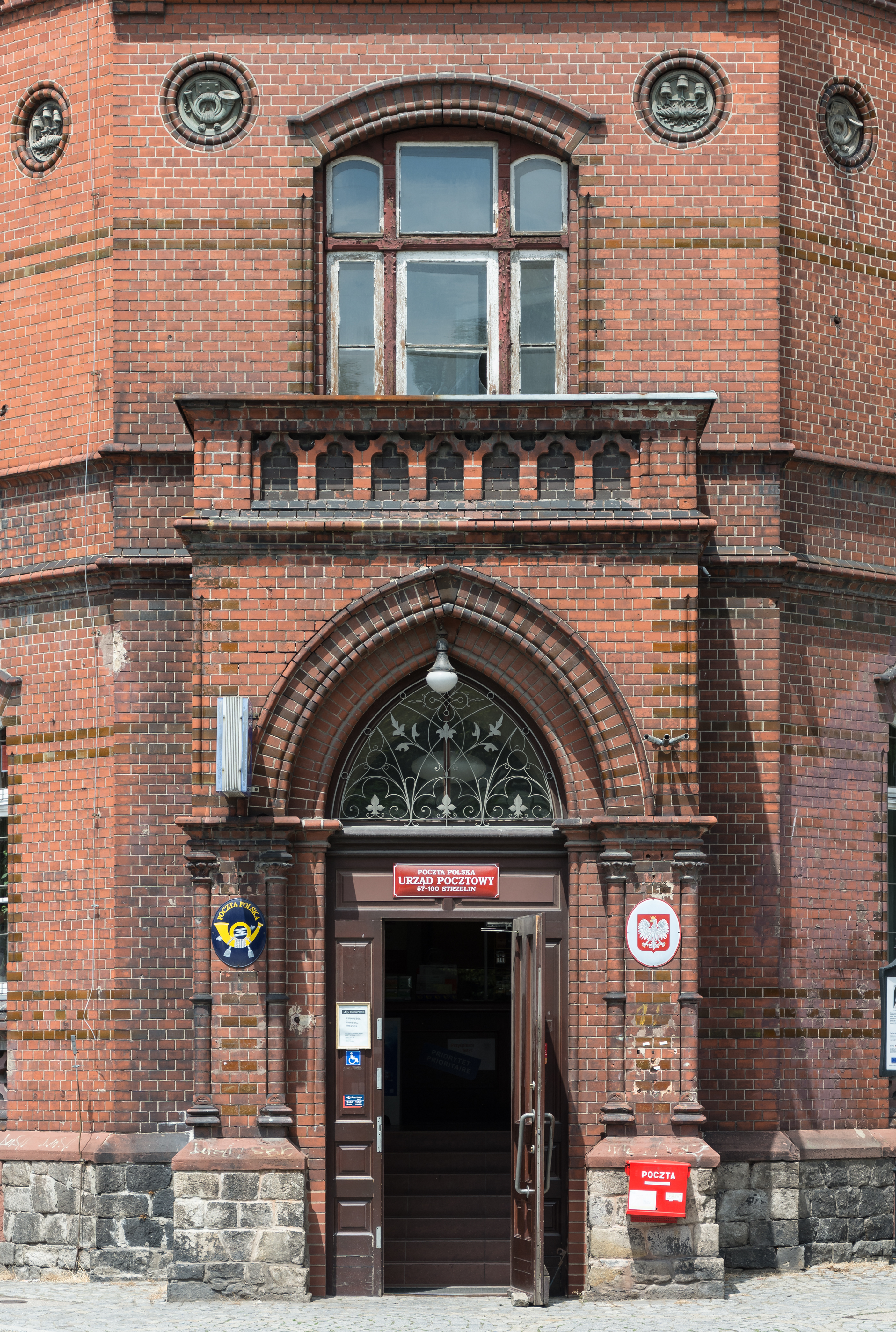 Post office in Strzelin